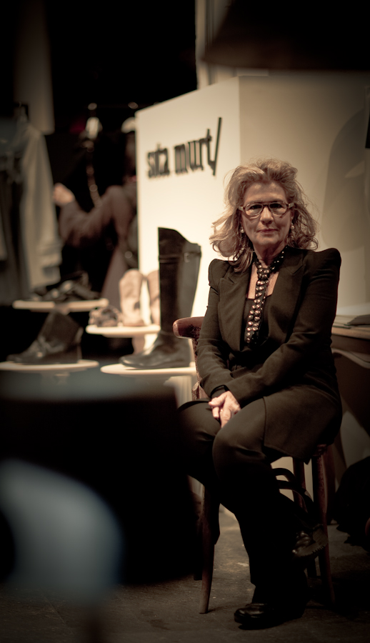 Sita Murt, fashion designer from Igualada, at the Brandery show 2010